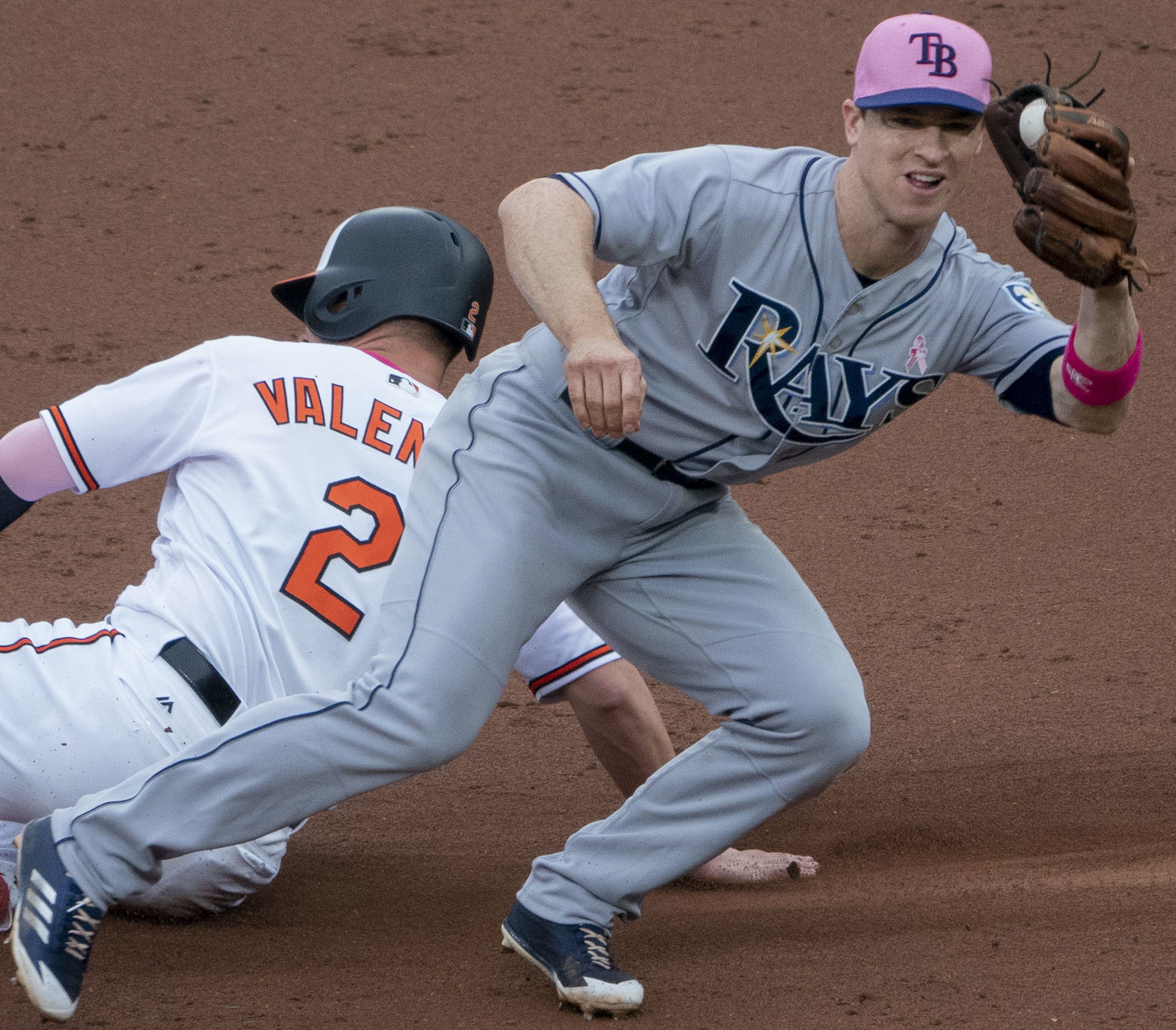 Rays at Orioles 5/13/18